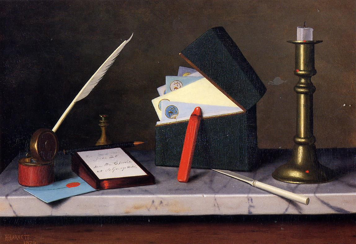 "Secretary's Table," oil on canvas, by the American artist William Michael Harnett. Courtesy of the Santa Barbara Museum of Art.